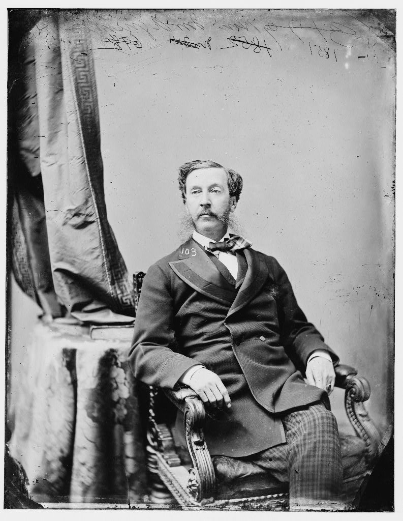 Portrait of John Augustus Griswold (1822-1872), three-term Congressman from New York, mayor of Troy, New York, and unsuccessful candidate for Governor of New York.